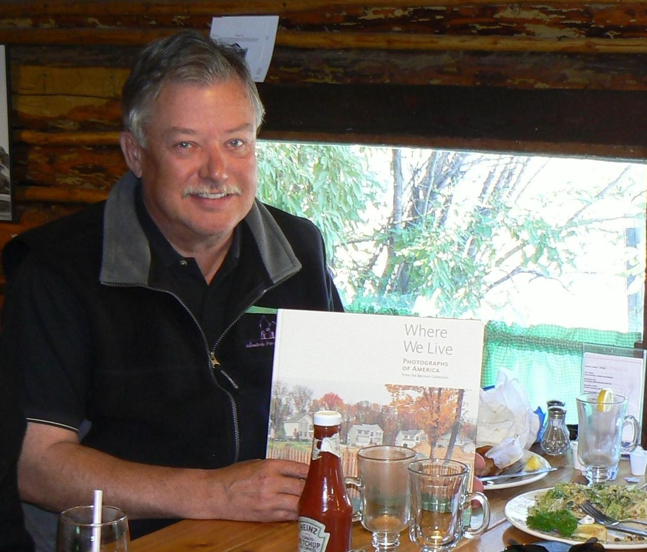 Gordon Van Tighem mayor of Yellowknife at the Wildcat Cafe. Cropped